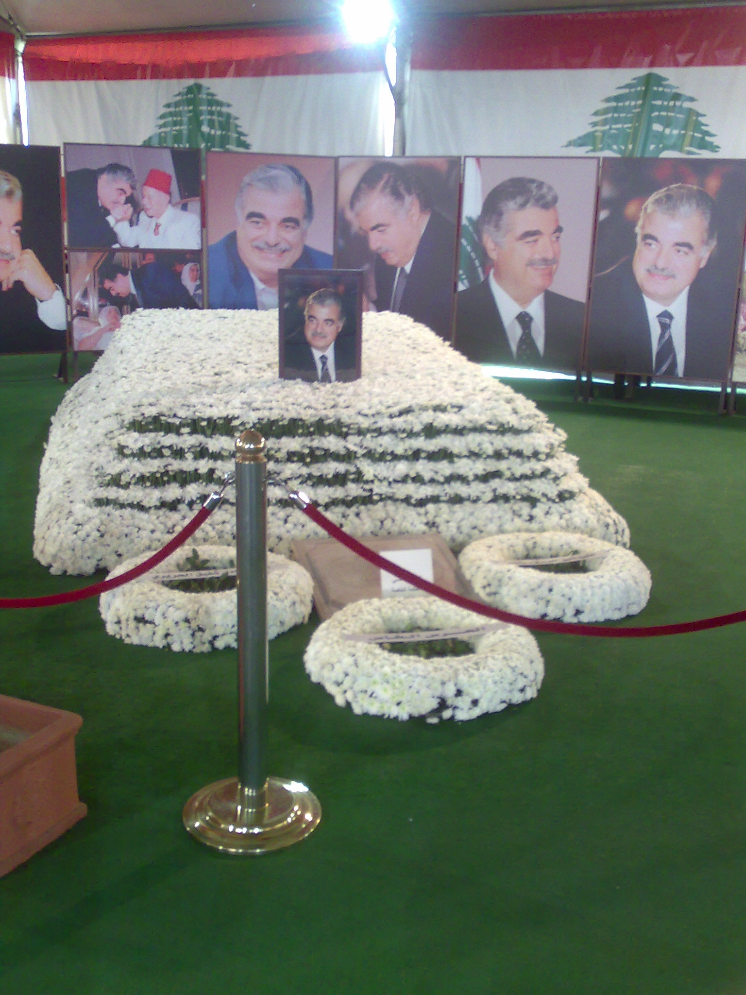 Al-Hariri memorial shrine in Beirut